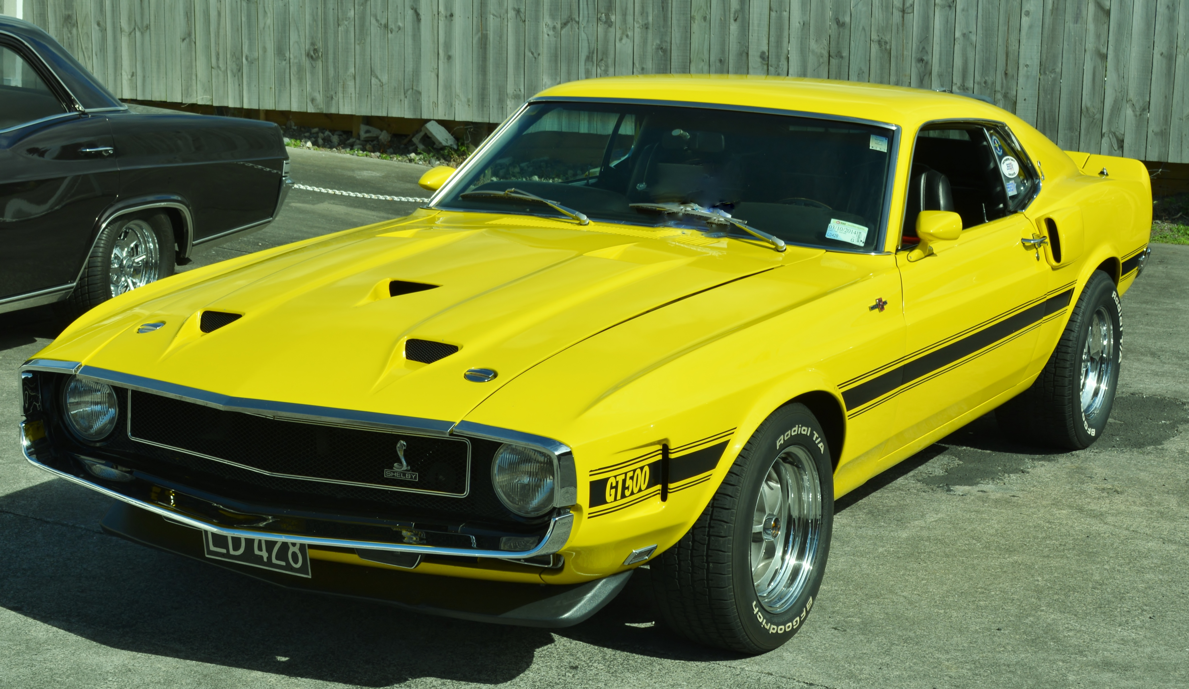 1970 Shelby GT500